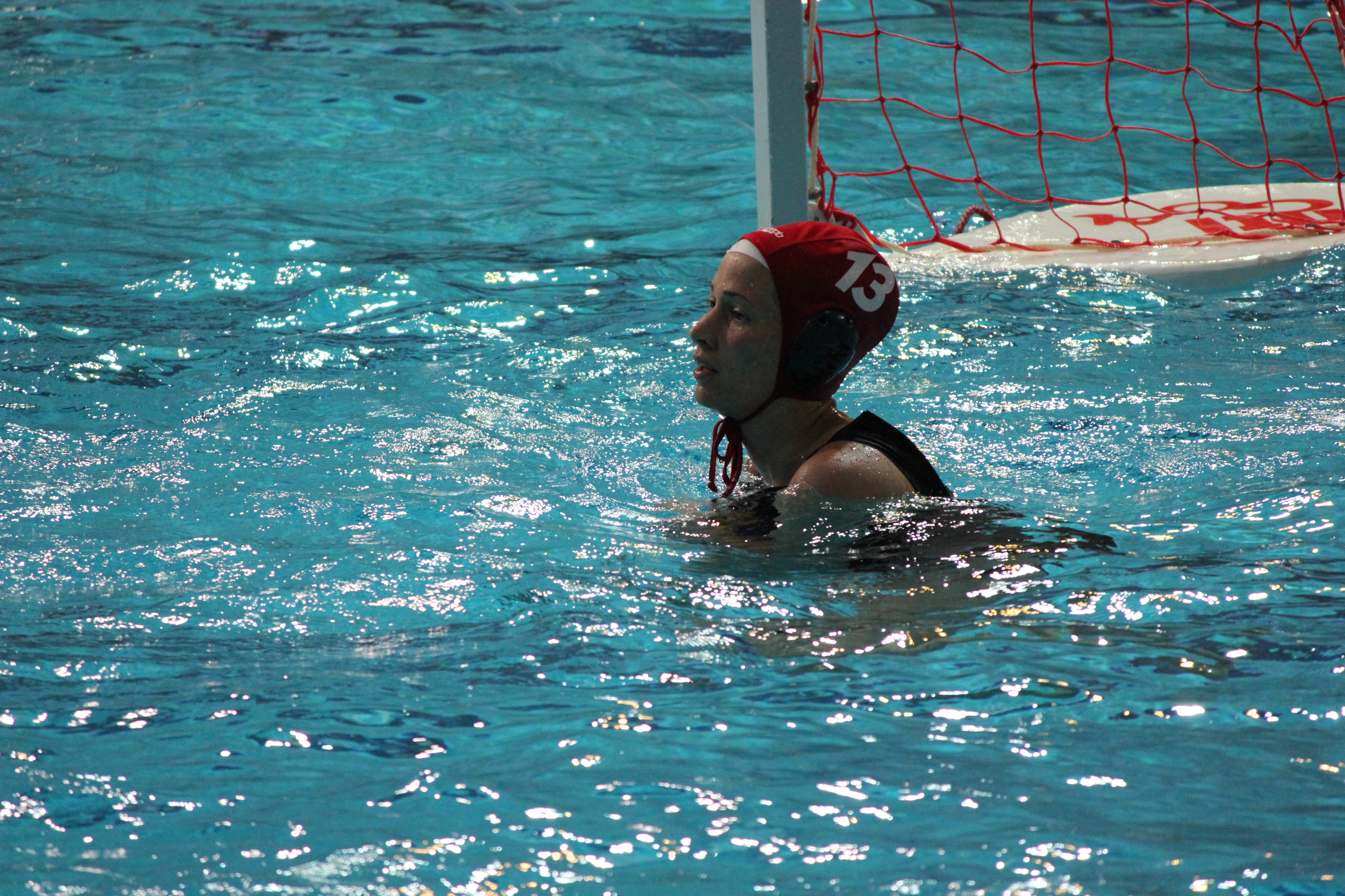 28 February 2012, fifth test match at the AIS Aquatic Centre between Australia women's national water polo team and Great Britain women's national water polo team. Australia won the test 14-3. Australia wore white caps and GBR wore black. Australia's goalkeeper.